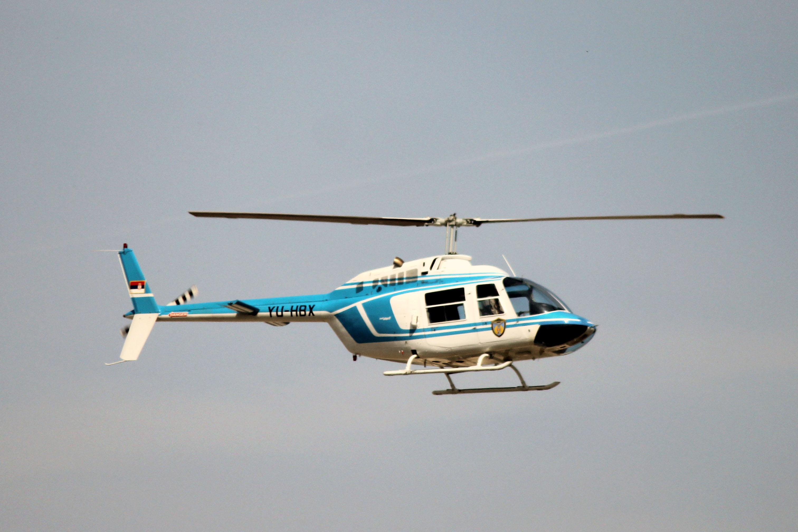 Serbian police helicopter unit Bell-206B helicopter.